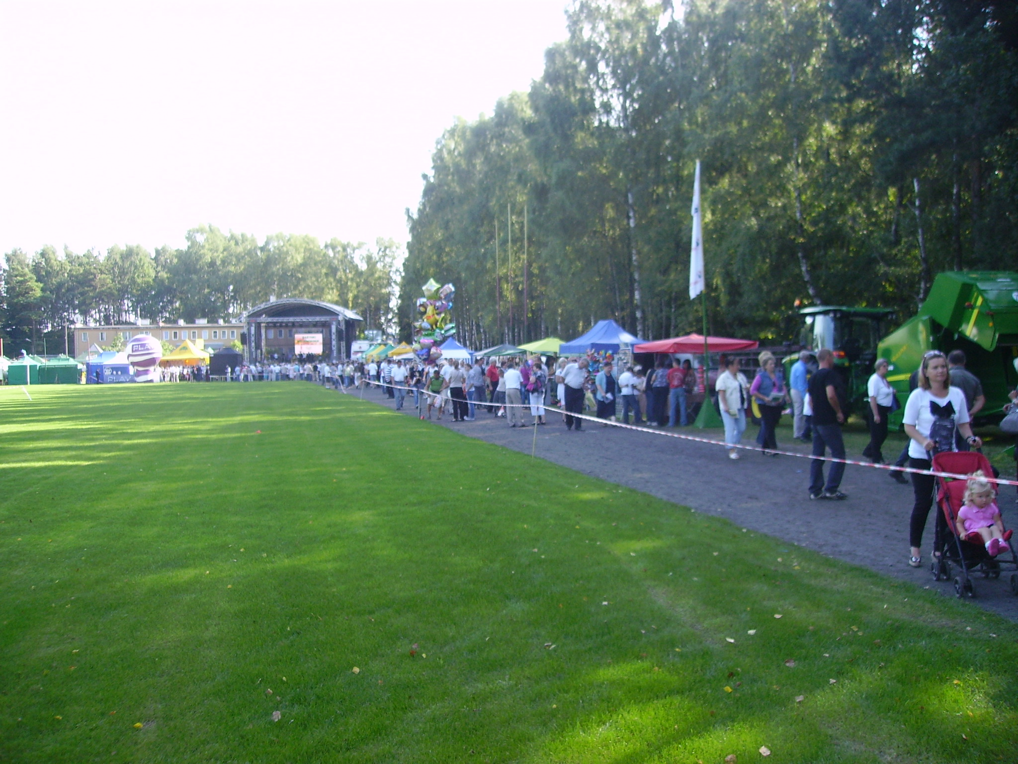 Harvest Festival 2011 at the stadium MOSiR in Mońki, Poland